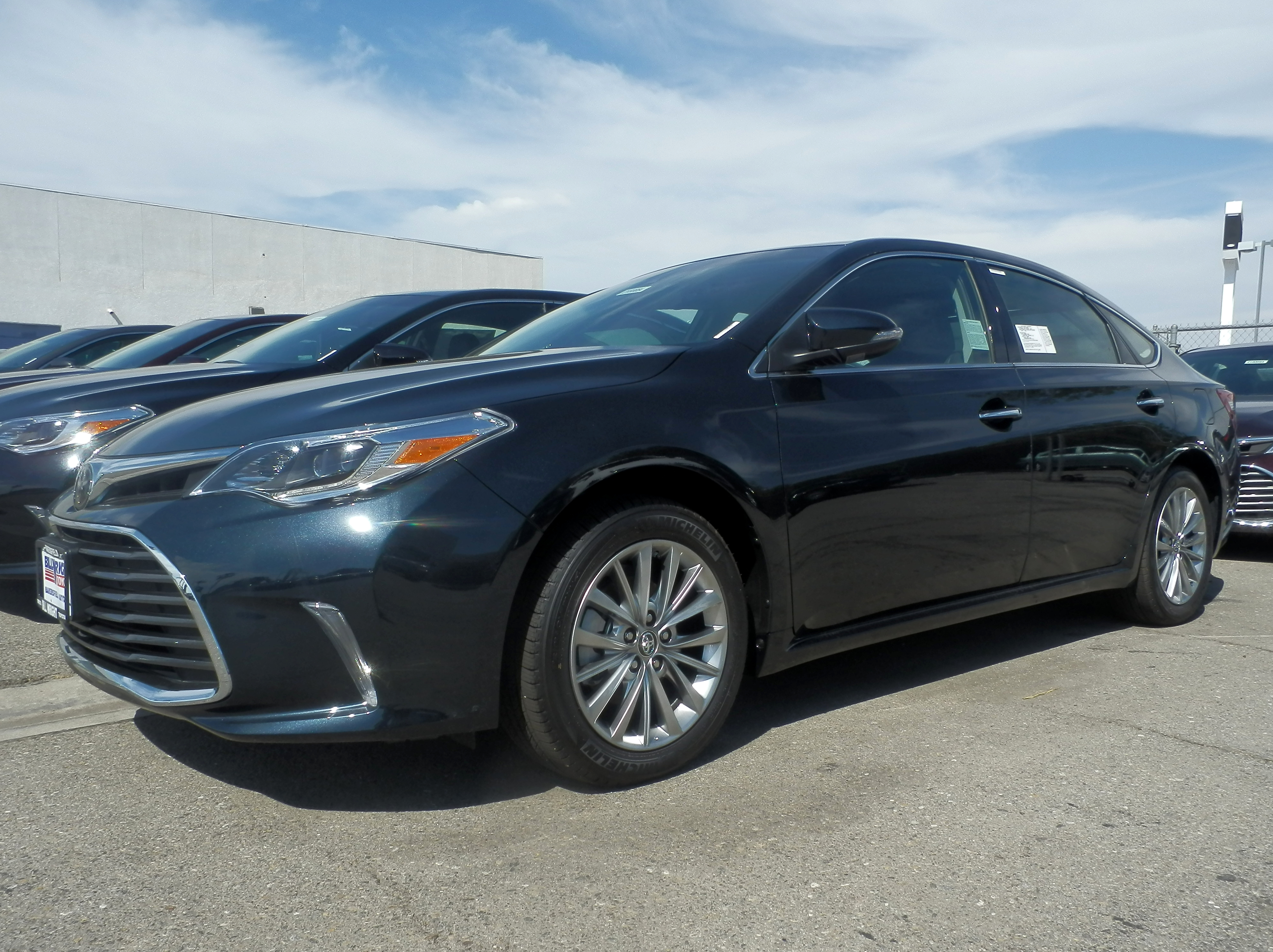 Toyota Avalon in Bakersfield